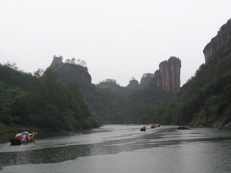 Nine-bend River and Yunü Peak in the Wuyishan City, Fujian Province, China.